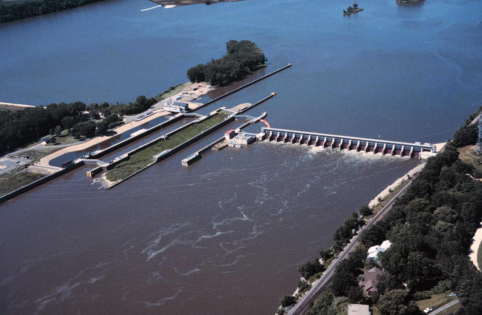 Mississippi River Lock and Dam number 2 near Hastings, Minnesota